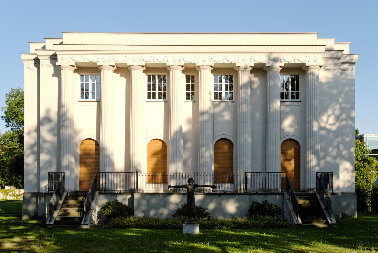 Outbuilding of Palucca Hochschule für Tanz Dresden, Tiergartenstraße 78 in Dresden, Germany This is a photograph of an architectural monument.It is on the list of cultural monuments of Dresden